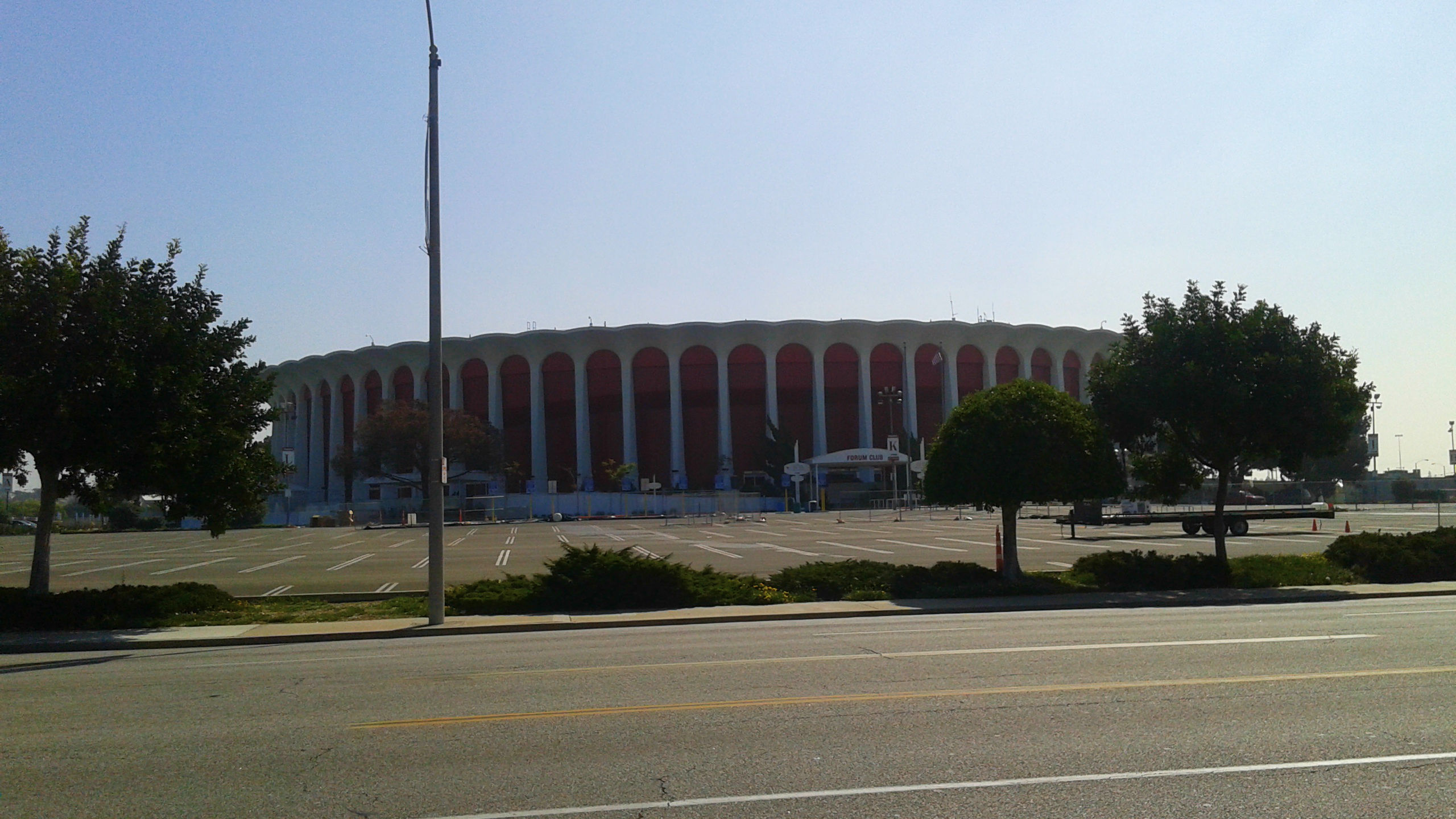 3900 W Manchester Blvd, Inglewood, CA 90305